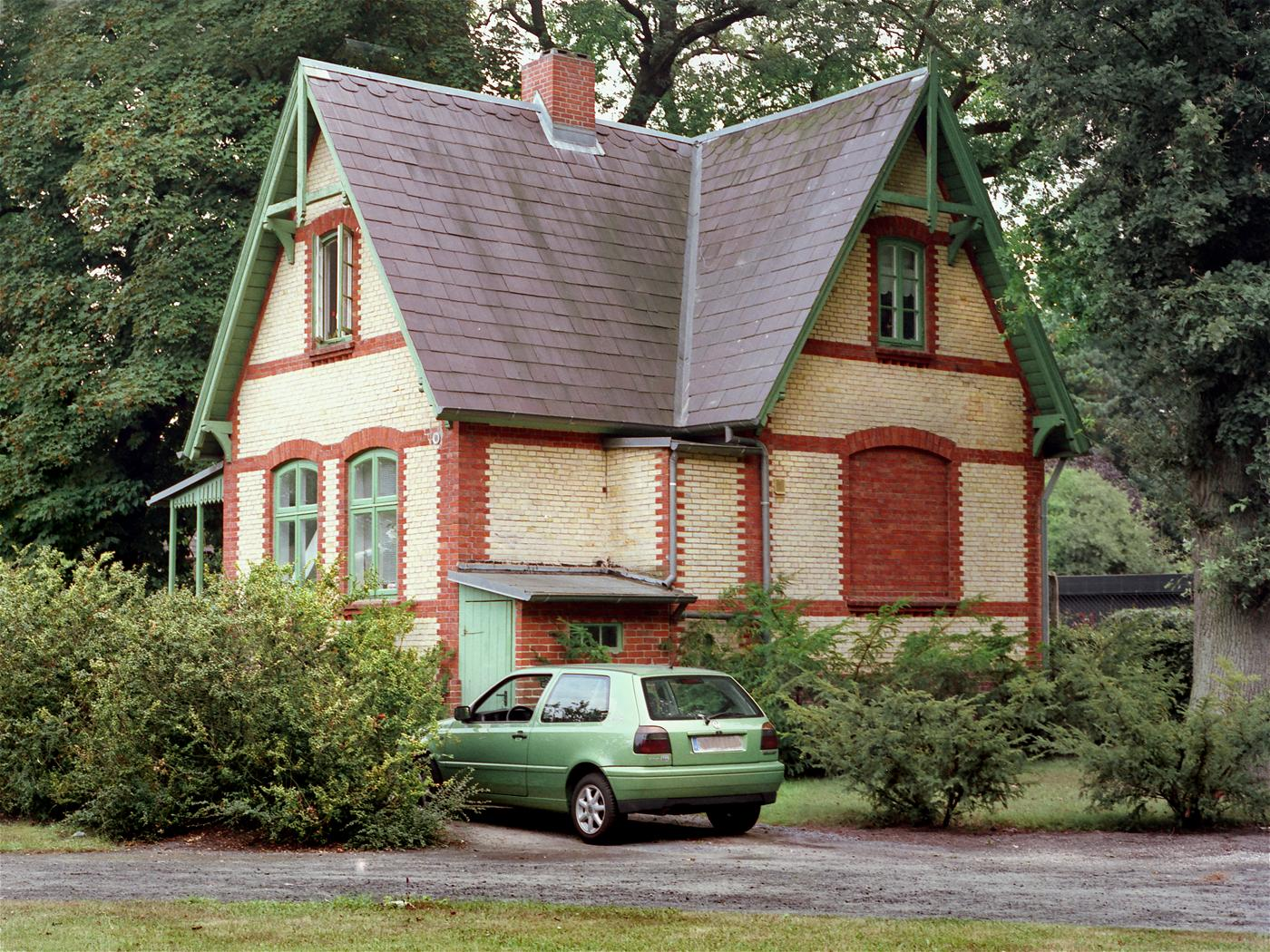 Moorrege (Schleswig-Holstein, Germany), “Düneck-Castle“, house of the gardener, photo: 1997